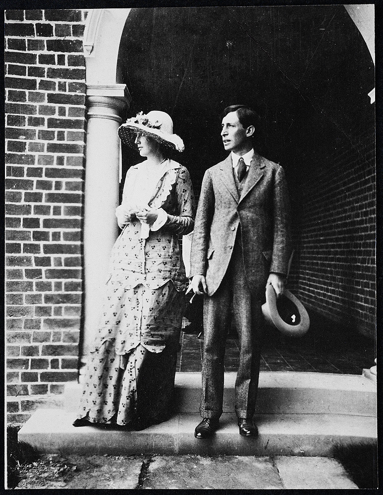 Engagement photograph, Virginia and Leonard Woolf, 23 July 1912, a month before their wedding. Photograph taken at Dalingridge Place, the Sussex home of Virginia’s half-brother, George Duckworth